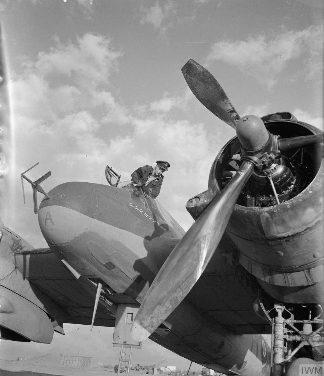 Royal Air Force Radar, 1939-1945 Air Interception: Wing Commander C P "Paddy" Green (wearing a flying officer's SD jacket), Commanding Officer of No. 600 Squadron RAF at Cassibile, Italy, looks out of the cockpit of Bristol Beaufighter Mark VIF, V8762 'A'. The aircraft is equipped with AI Mark IV radar.